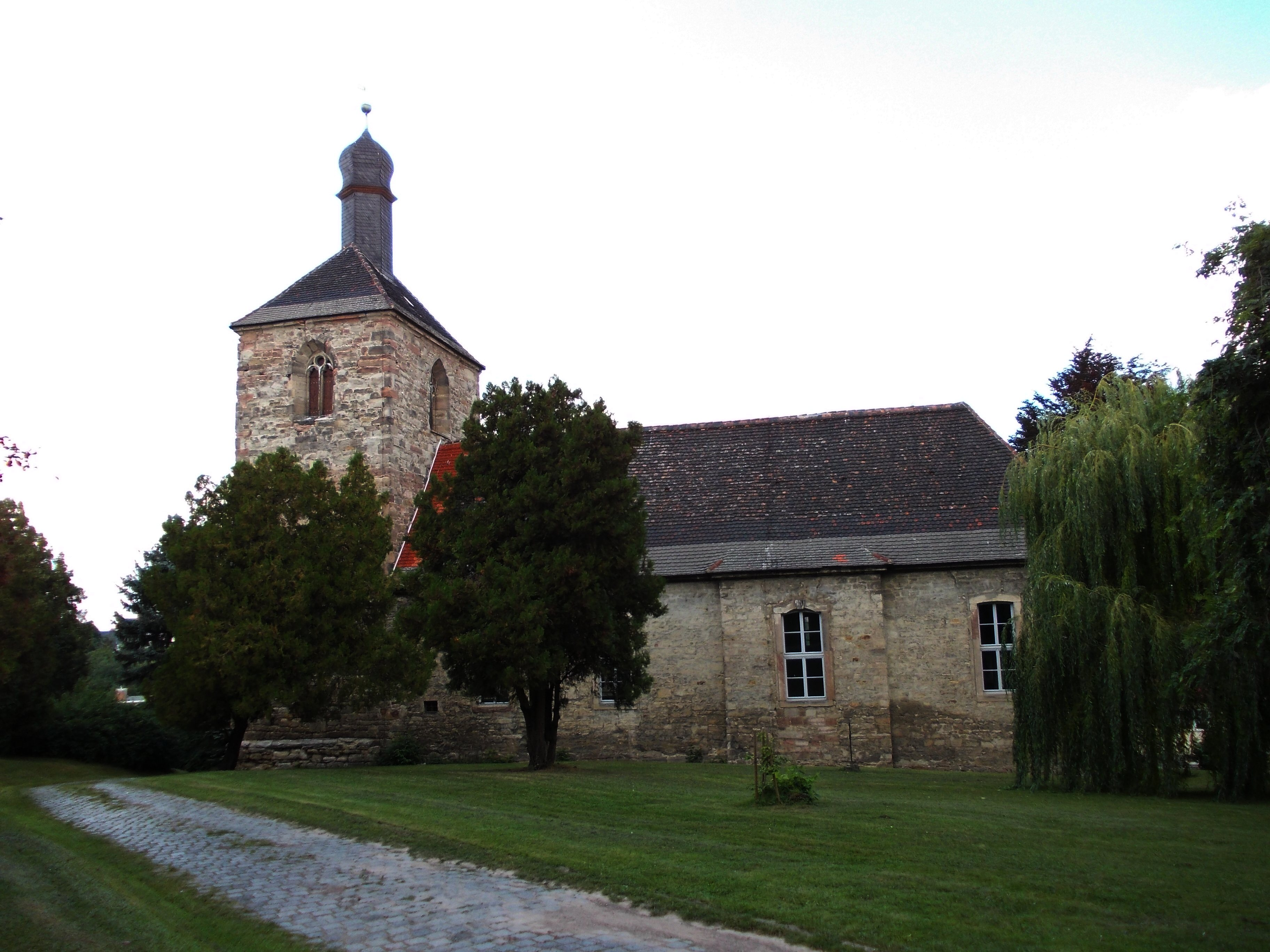 St. Vitus Church in Teutschenthal (district of Saalekreis, Saxony-Anhalt)